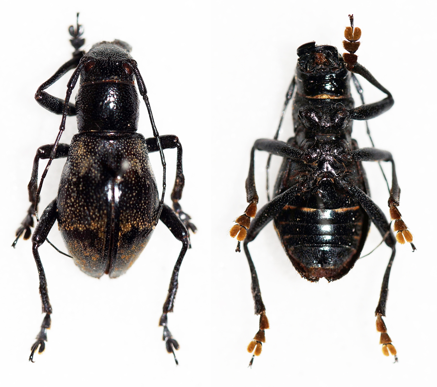 Sex: Female Data: 08-2014 - Banaue - Ifugao - North Luzon - Philippines Size: 17mm